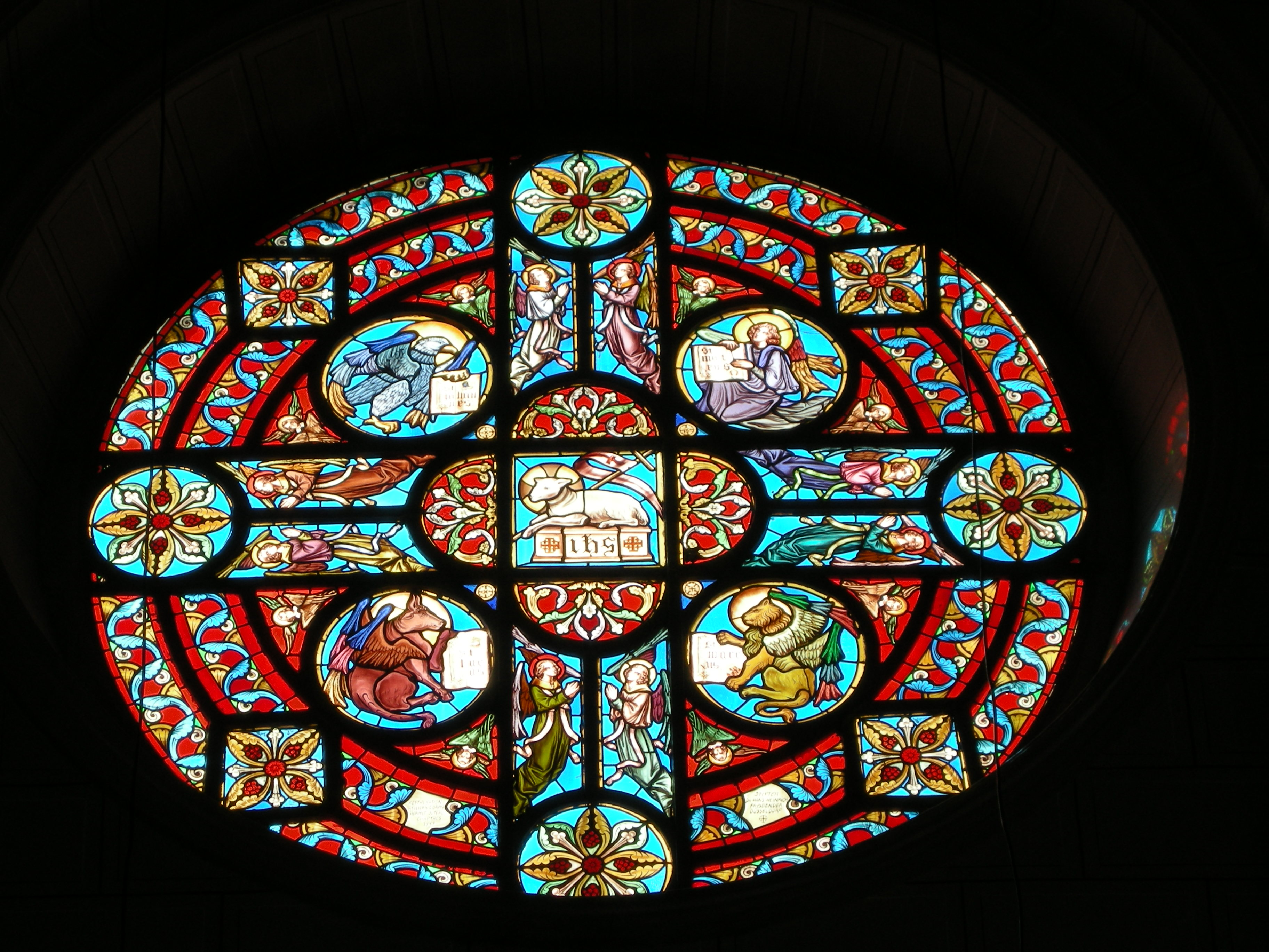 Visit in the Concathedral of the Latin Patriarch of Jerusalem, west window, 5 meters in diameter, with the Mystical Lamb as the center-piece, surrounded by the symbols of the four evangelists. The window was a gift of Dr. J.H. Faßbender of Düsseldorf, Germany.